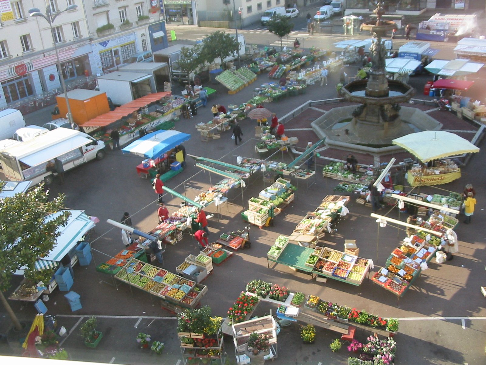 Cherbourg (France): market place